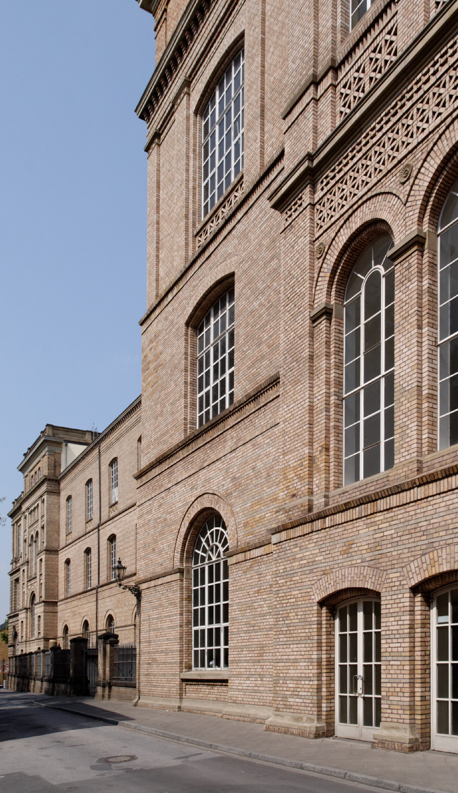 Kunstakademie, Eiskellerstraße 1 in Düsseldorf-Altstadt, Germany This is a photograph of an architectural monument.